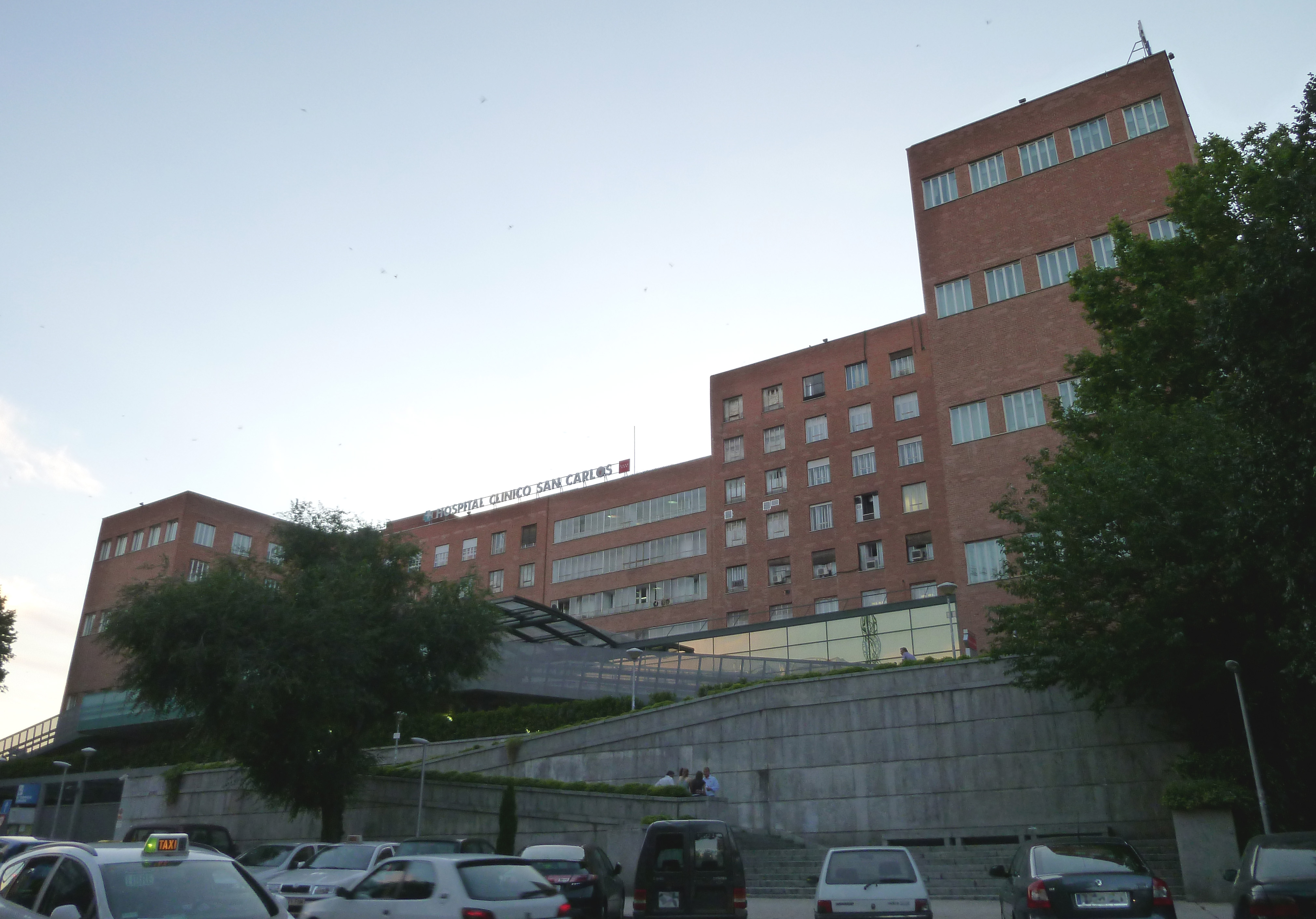 Façade of Hospital Clínico San Carlos in Madrid (Spain).